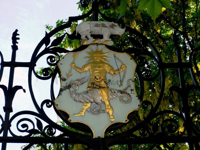 Emblem above the south gate of the Chelsea Physic Garden (Worshipful Society of Apothecaries)